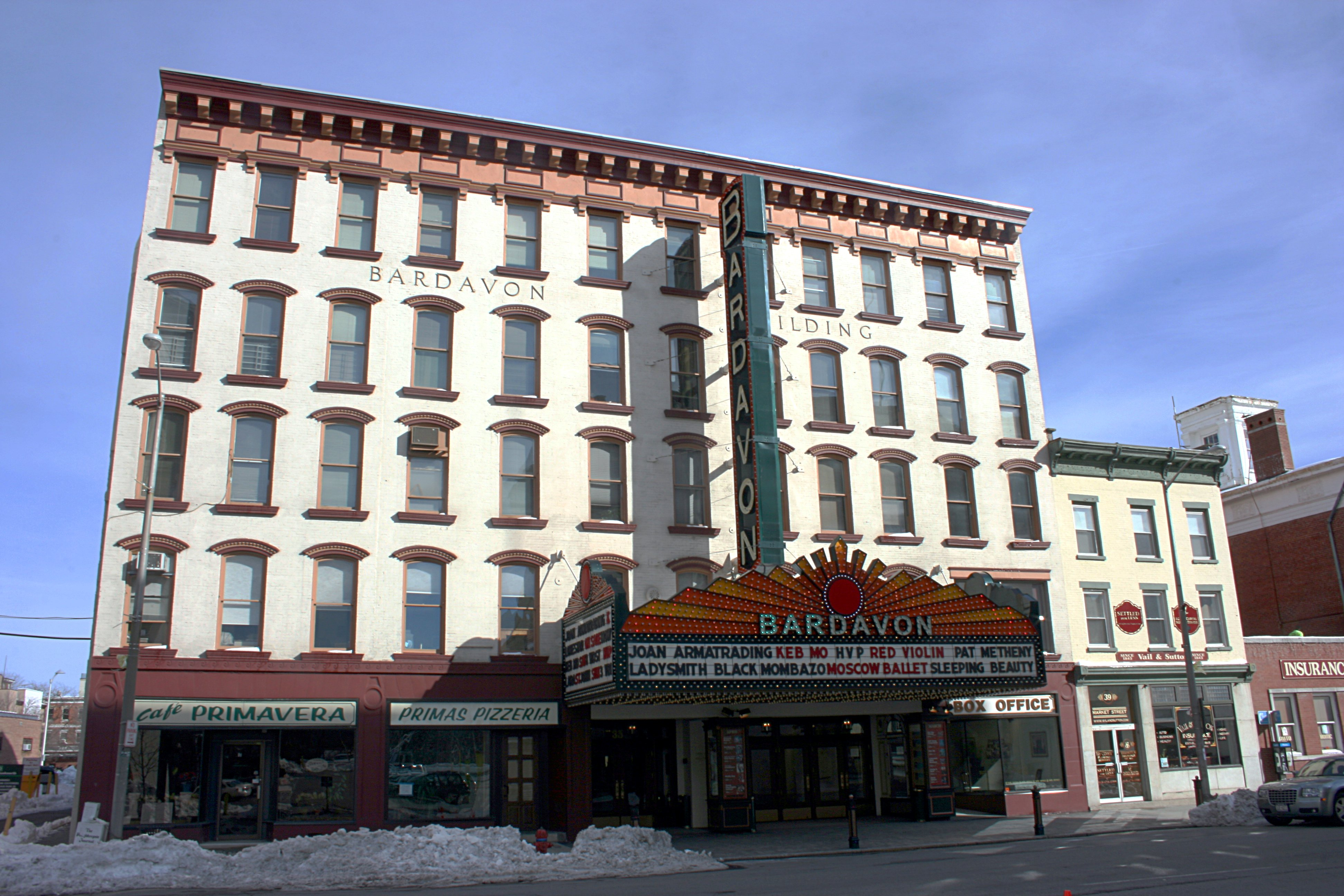 Photograph of the building of the Bardavon 1869 Opera House in Poughkeepsie, New York, USA